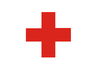 VI Corps, Army of the Potomac, 1st Division Badge